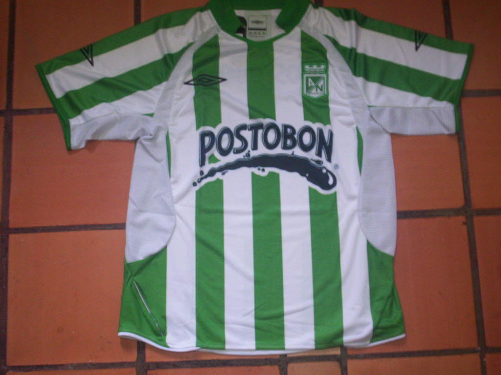 Atlético Nacional 2007 Home.